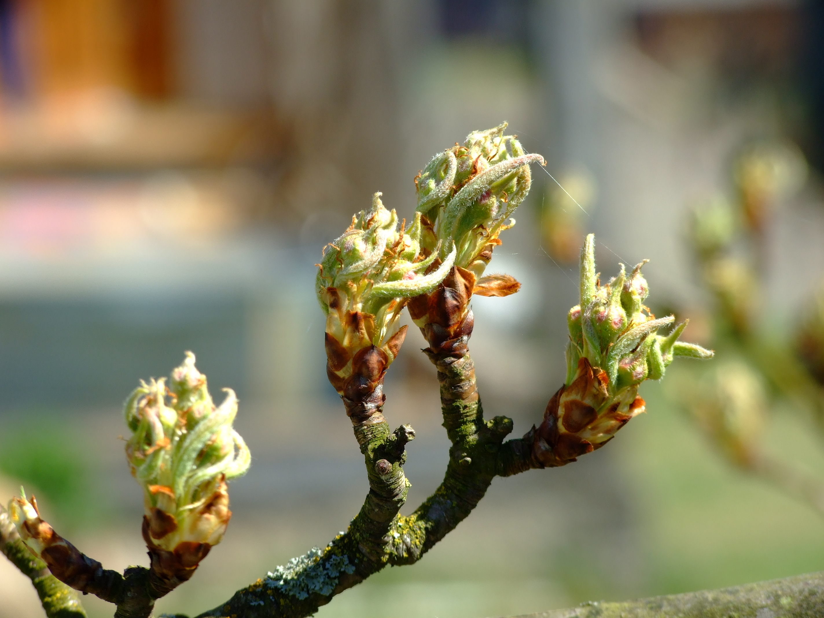 bud